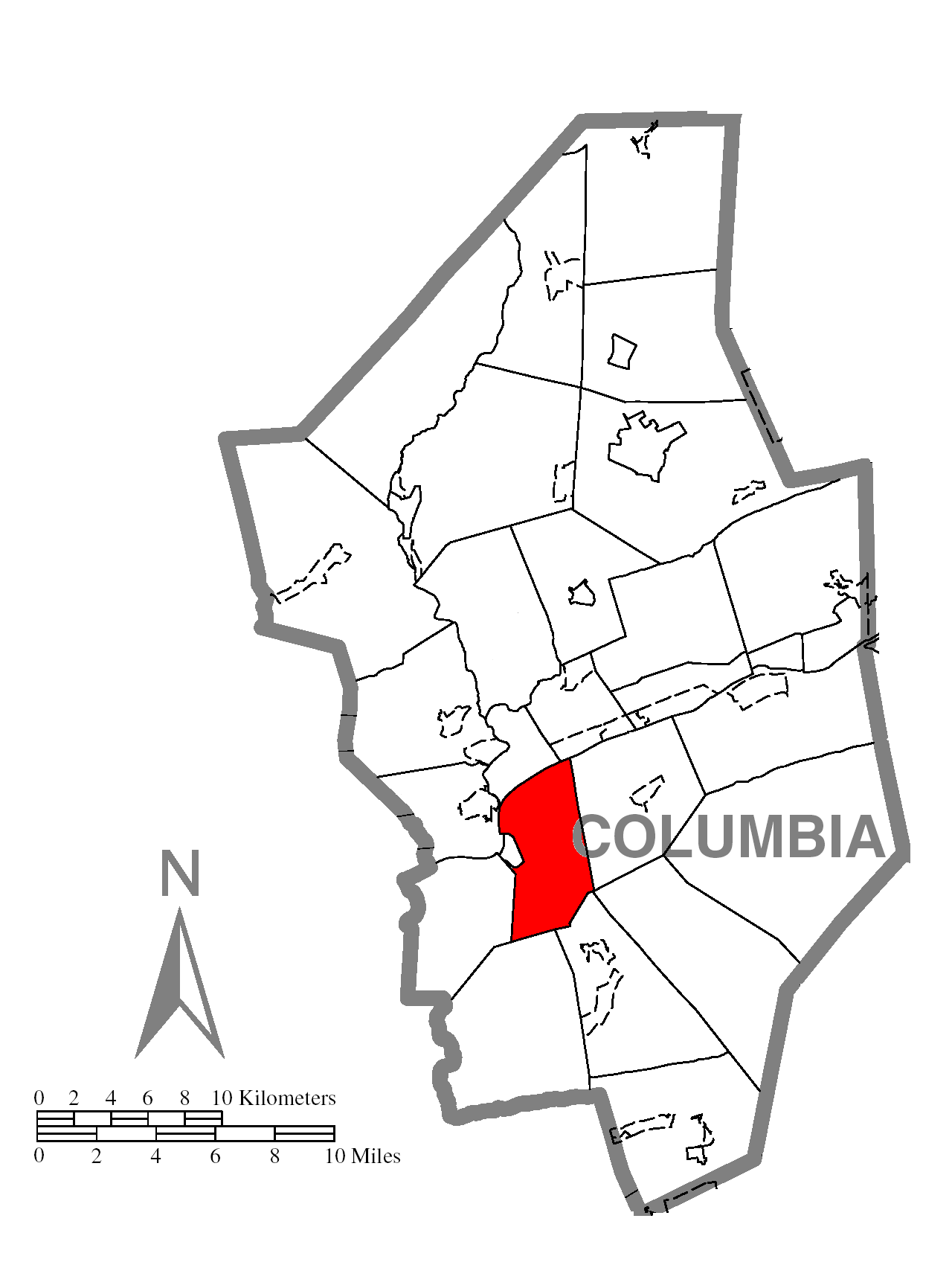 A map of Columbia County showing Catawissa Township, Pennsylvania (alternate) highlighted on the map.